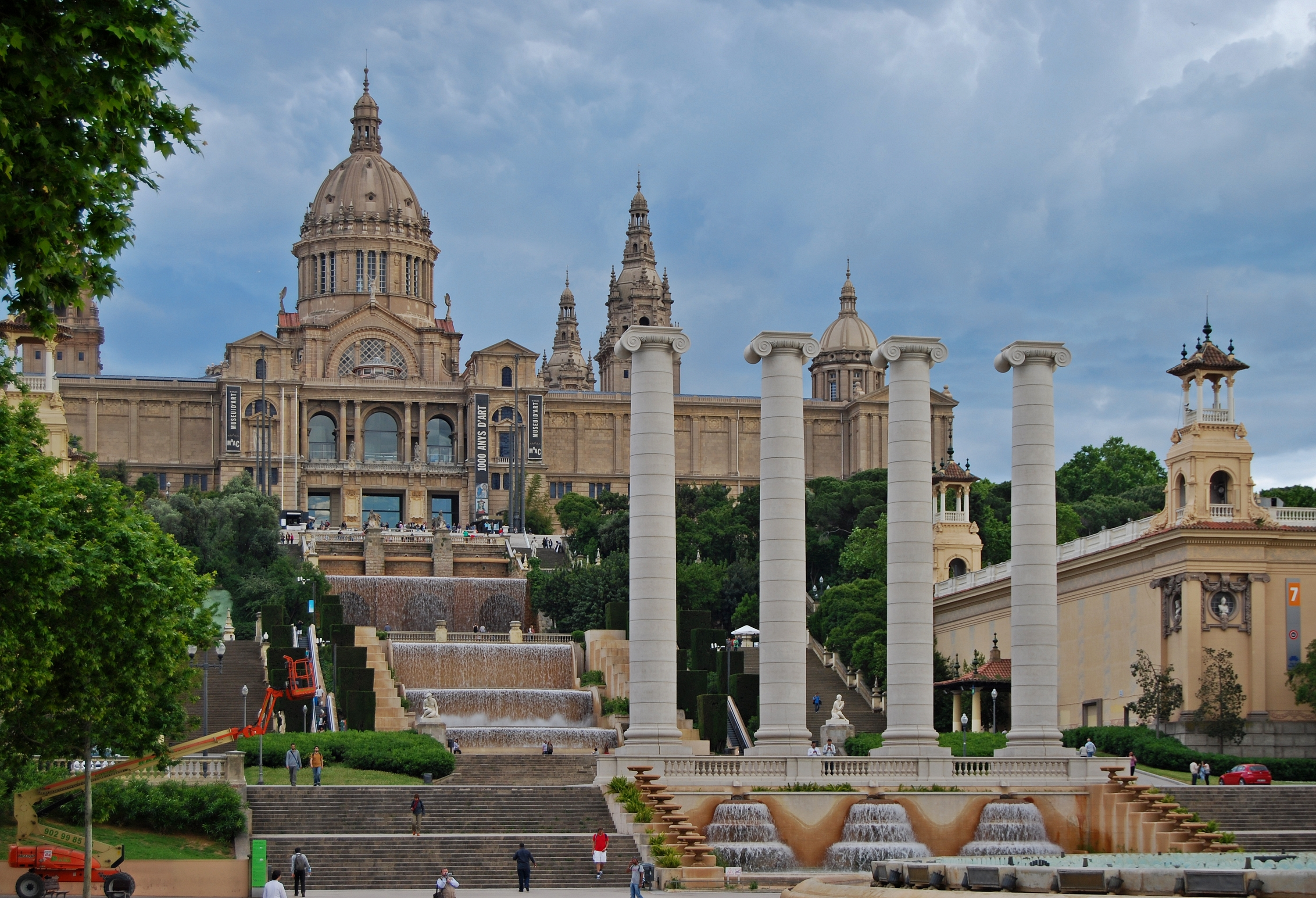 The Palau Nacional (seat of Museu Nacional d'Art de Catalunya) and The Four Columns, Montjuïc (Barcelona).